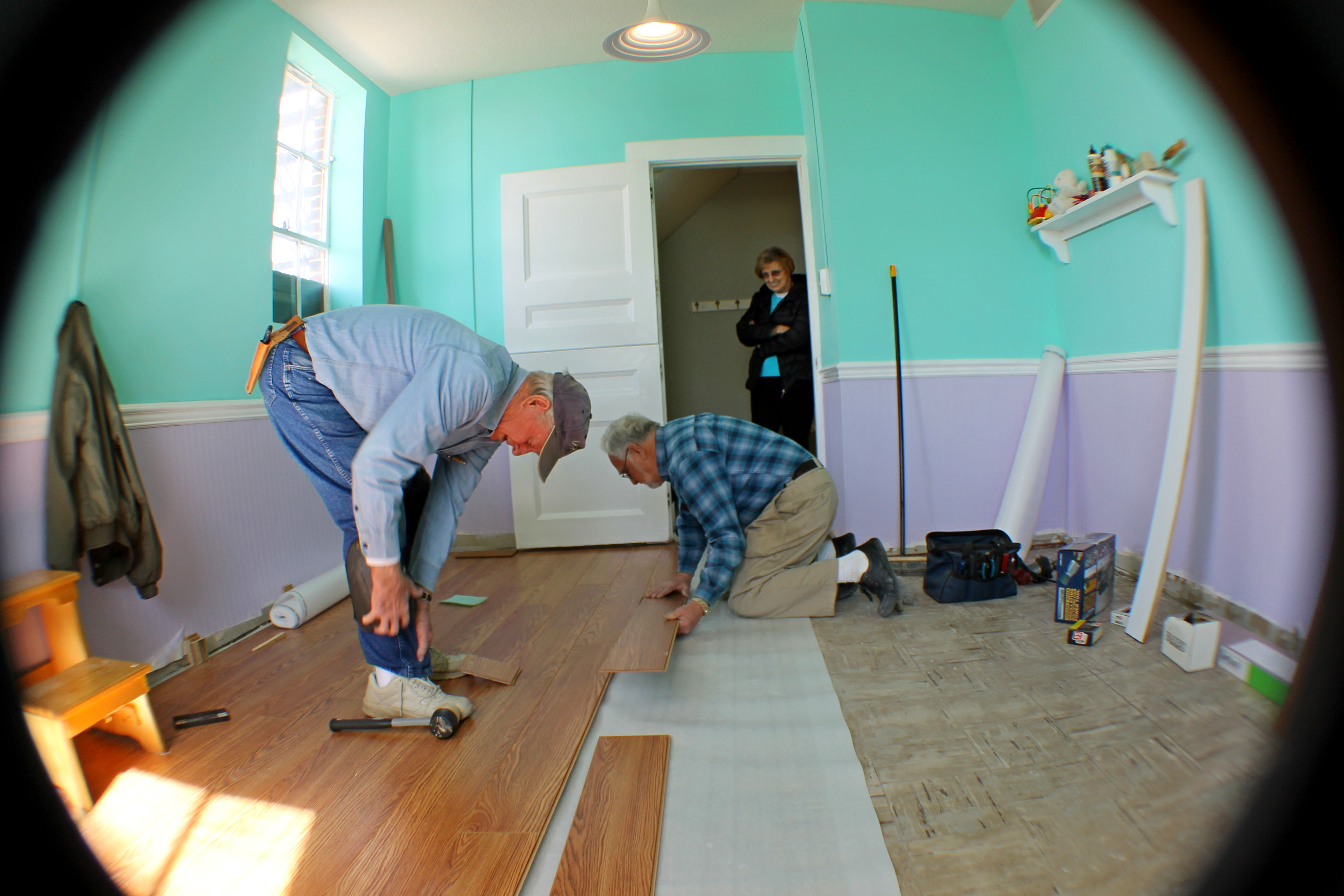 Image demonstrate assembled laminate section, cut sections to be fitted, underlay to allow for contraction, expansion, and moisture control, and original tile floor.